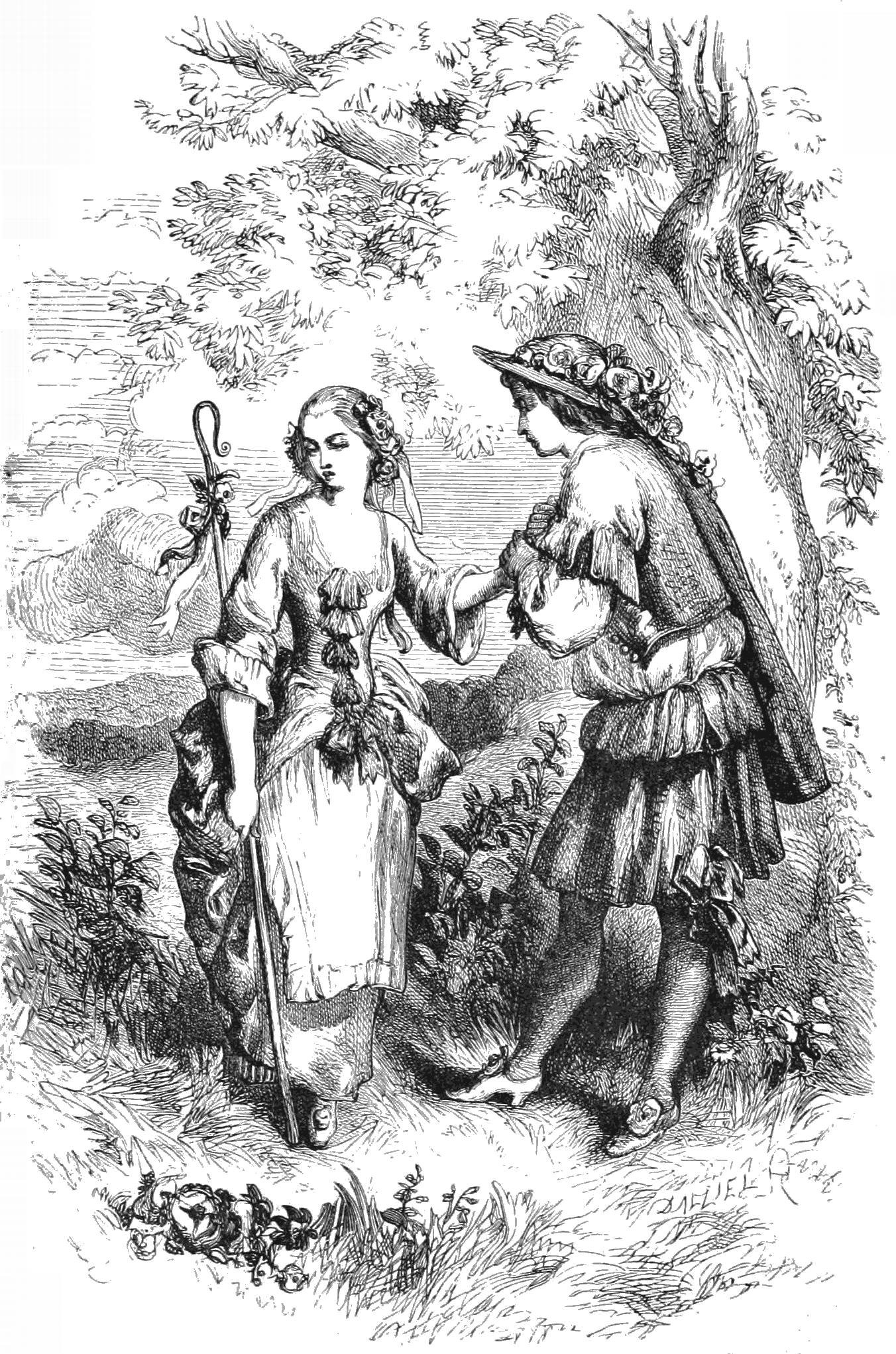 Illustration for a fairy tale by Madame d'Aulnoy